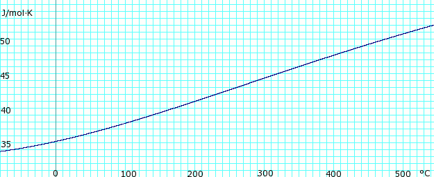 Plot of ammonia gas head capacity, cp, as a function of temperature.